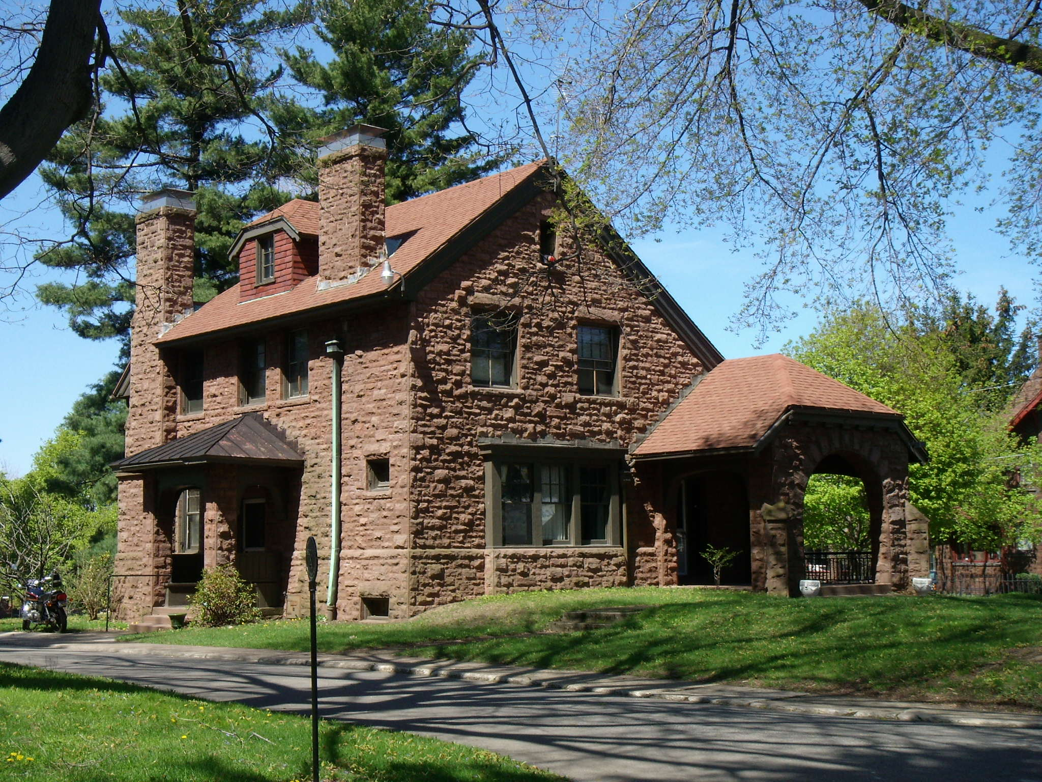 Photograph of an unidentified building.